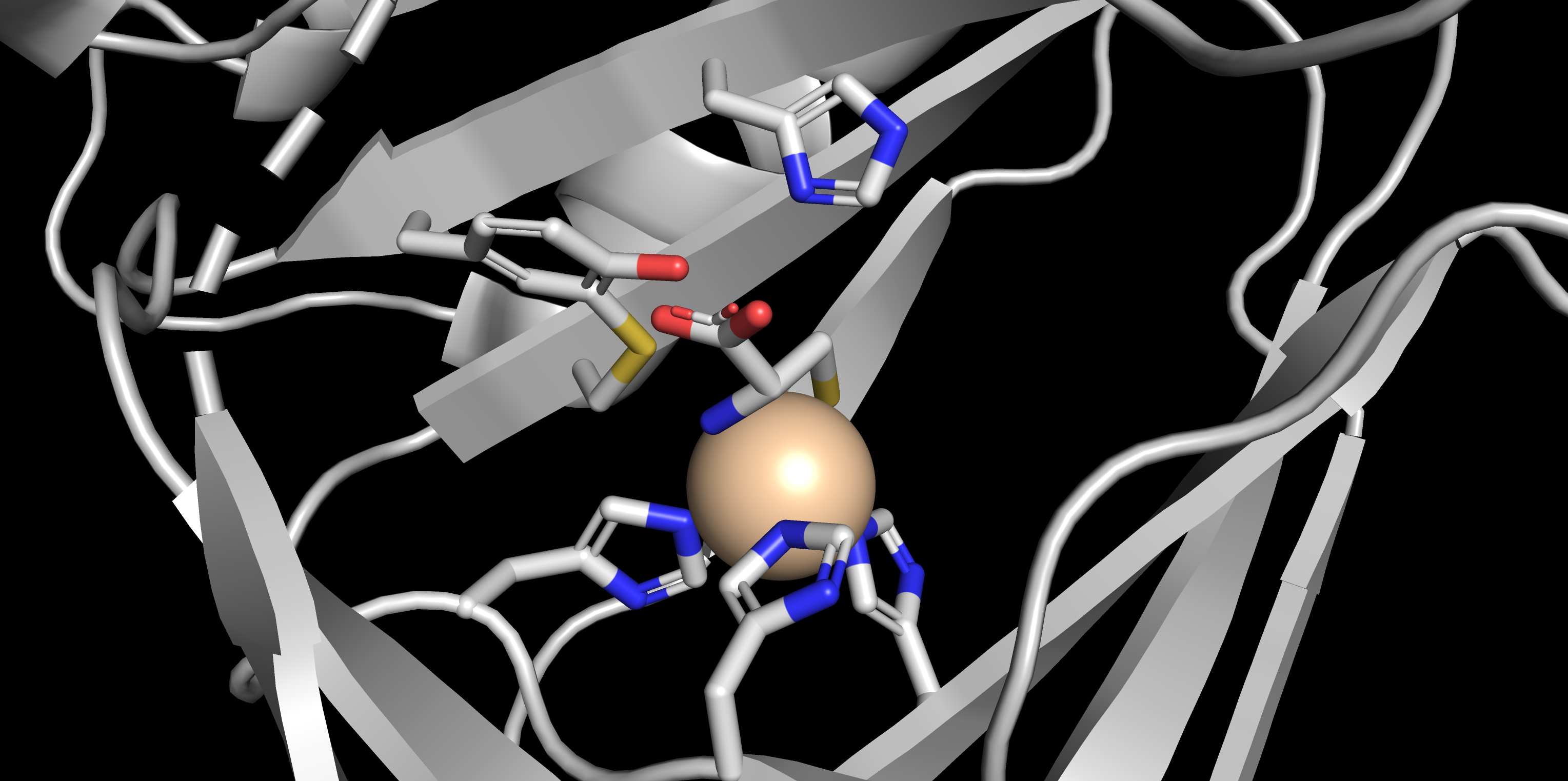 Active site of cysteine dioxygenase enzyme generated from PDB file 2IC1. Shows cysteine substrate bound to iron ion in active site with key residues highlighted.